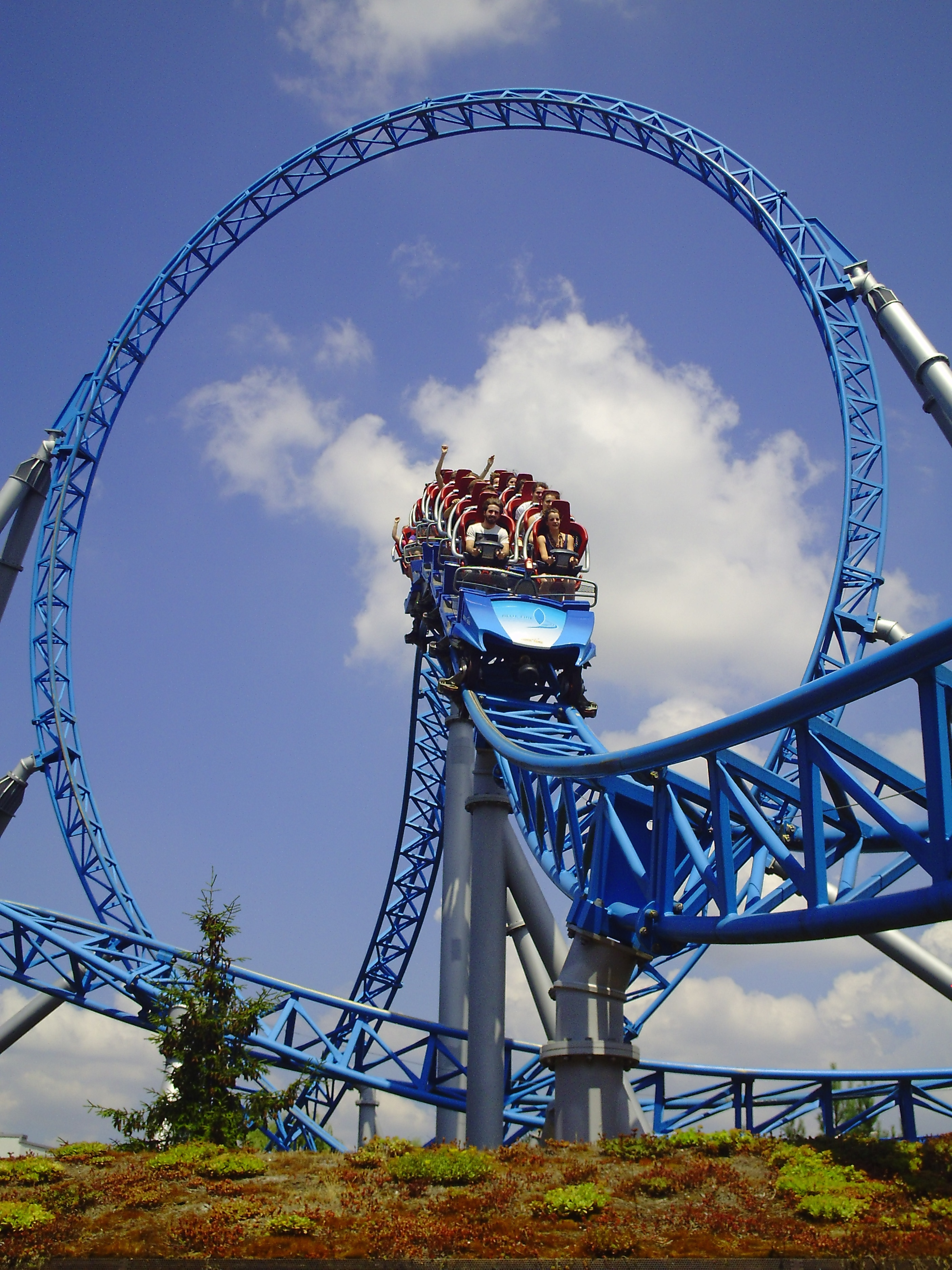 The image shows the pass through the Loop of the roller coaster Blue Fire at Europa-Park.